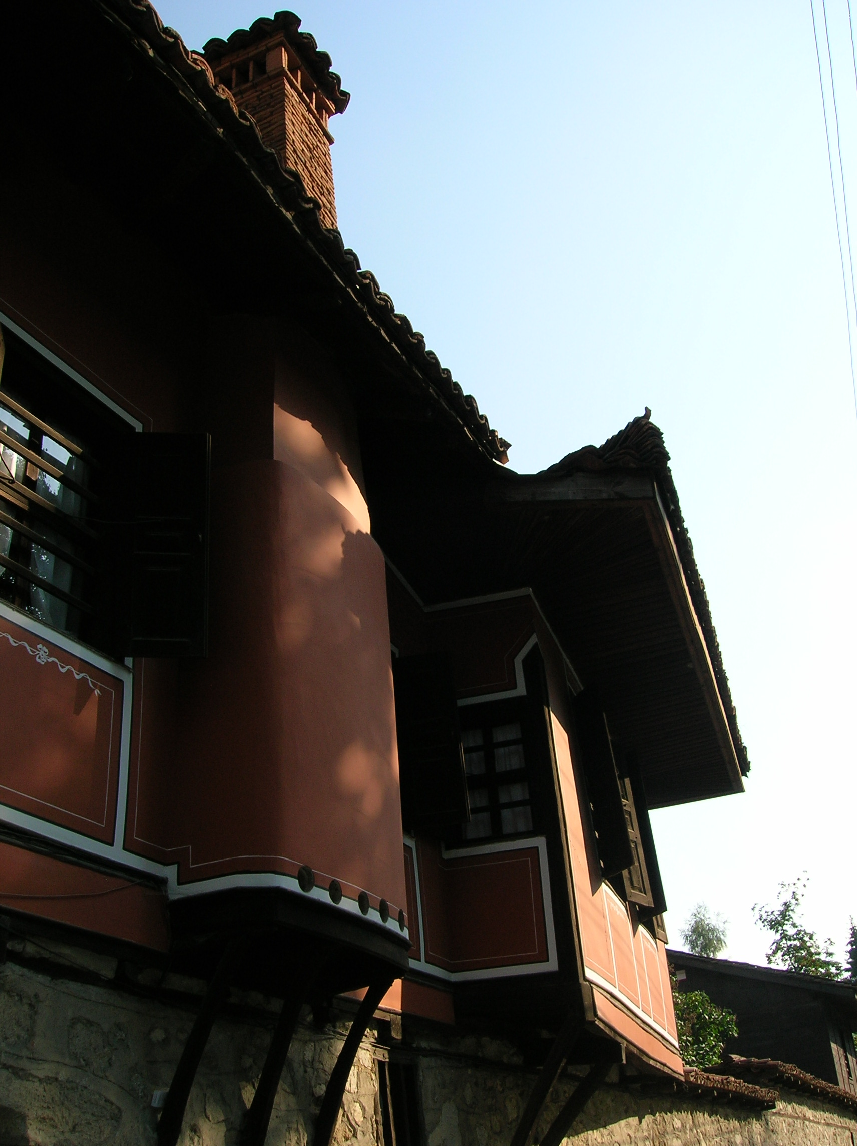 Karavelov House, in Koprivshtitsa (Bulgaria).